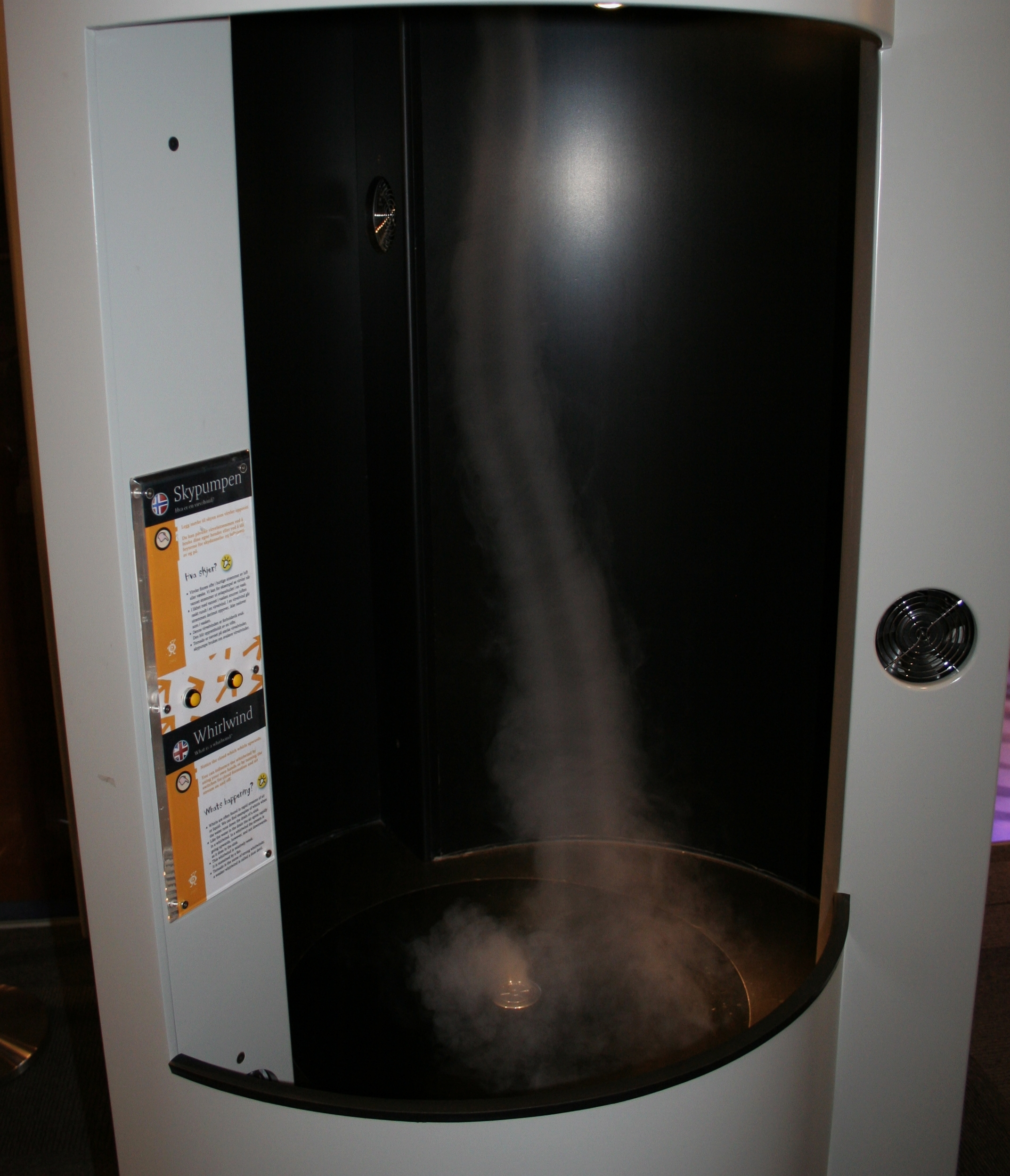 Small scale whirlwind, Bergen Science Centre.